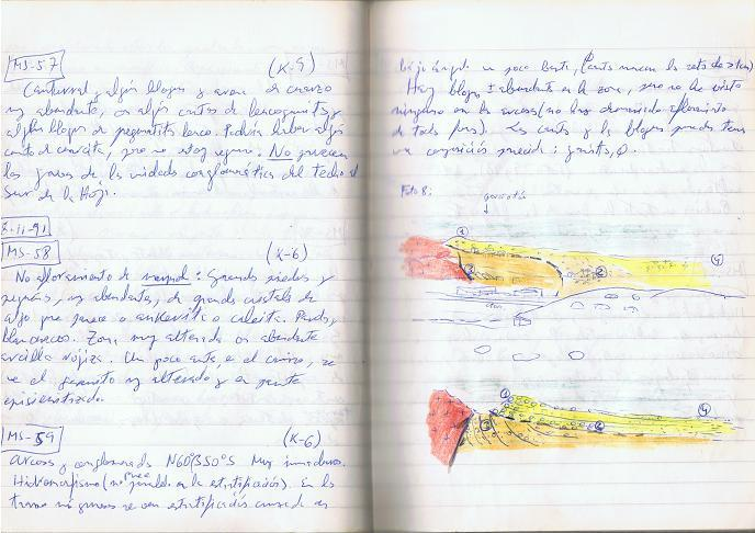 Geological notebook